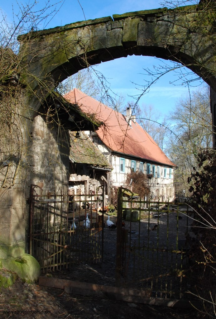 Raussmuehle (nr. Eppingen, Germany): view through gate